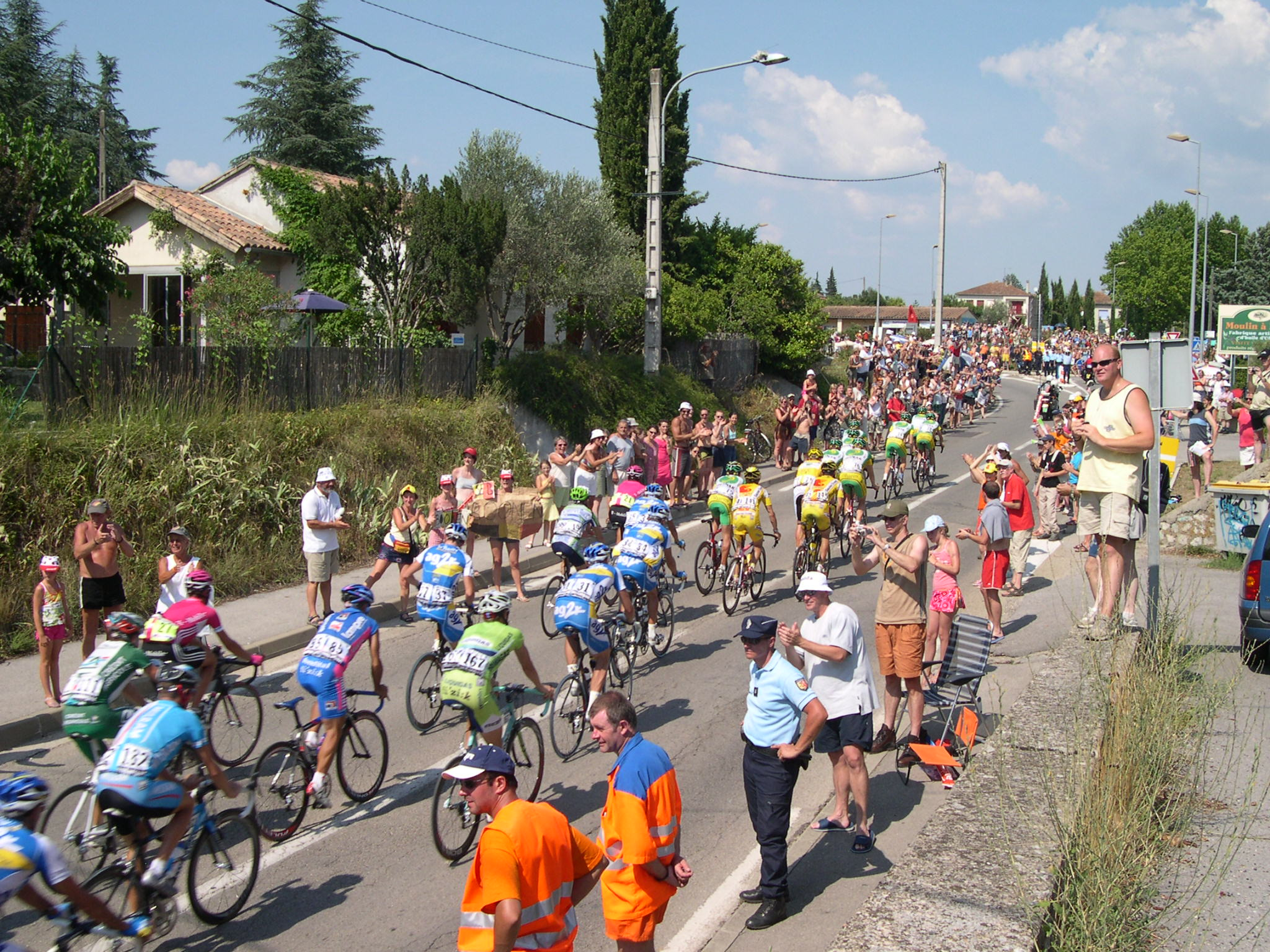 Picture taken during Le Tour de France.